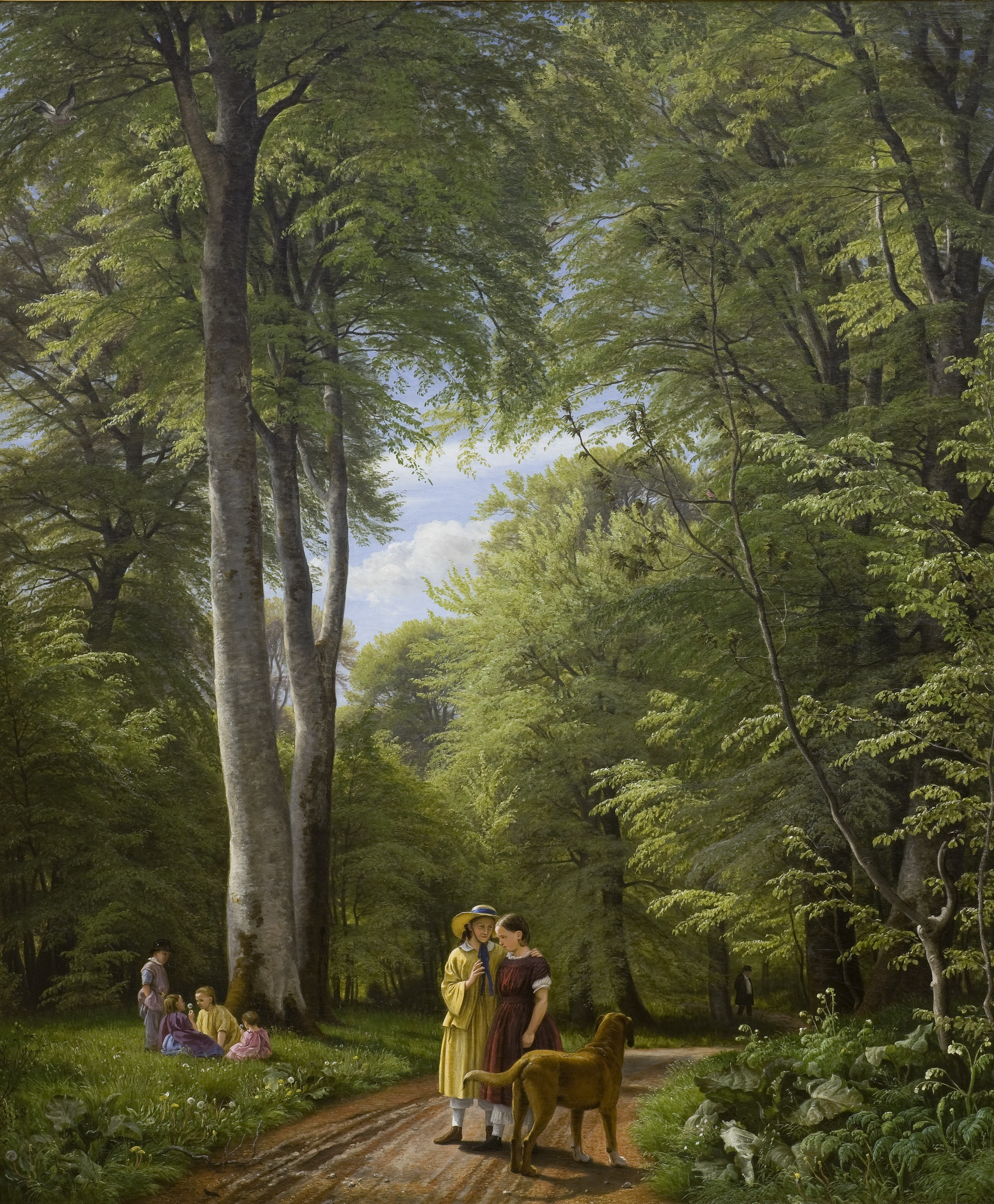 Fagus sylvatica—beech trees in a Danish landscape painting